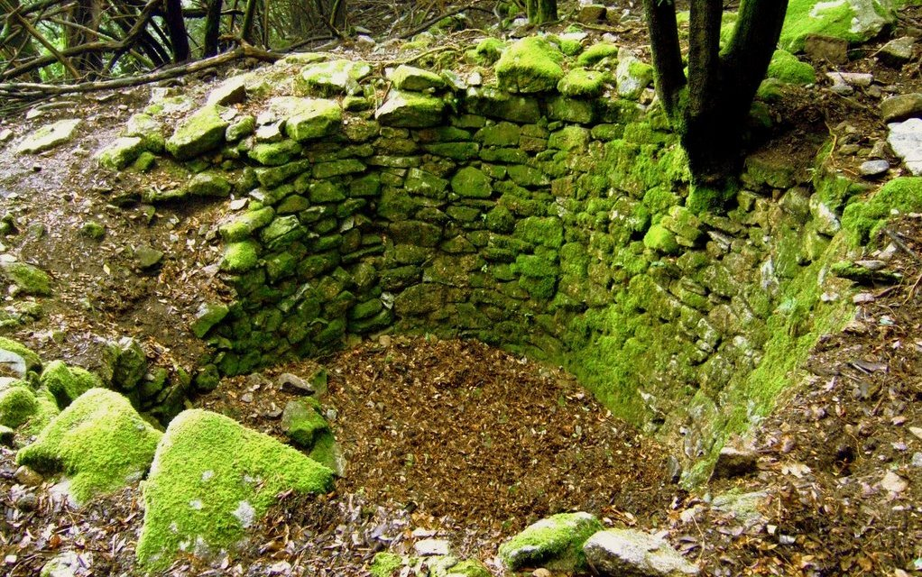 elba island